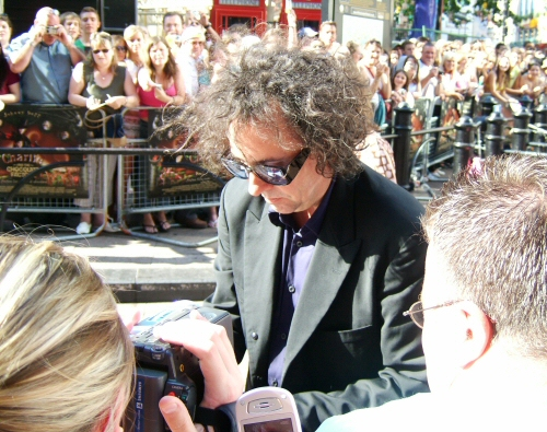 Tim Burton at premiere of Charlie and the Chocolate Factory.